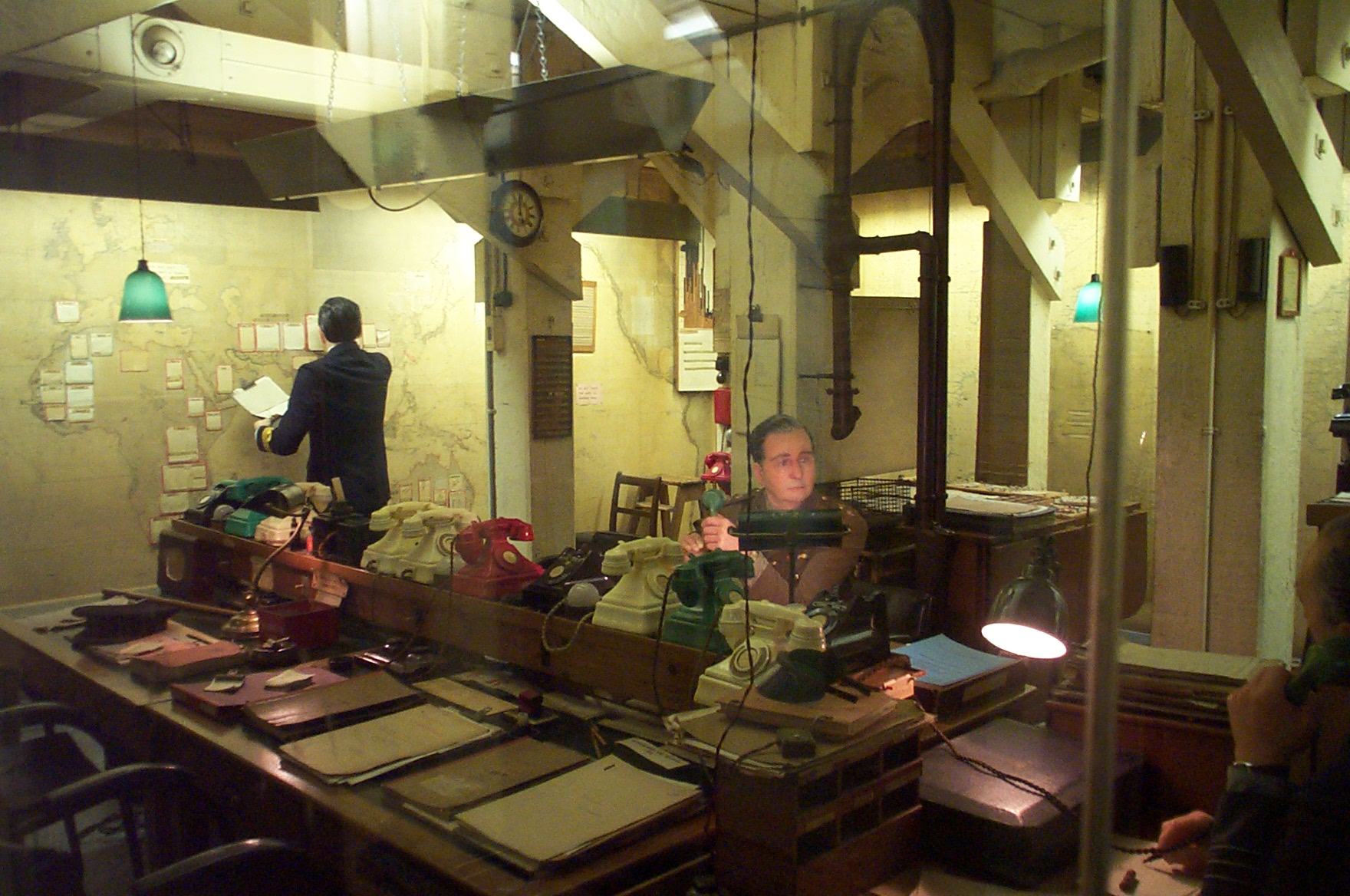 The Map Room in the Churchill Museum and Cabinet War Rooms